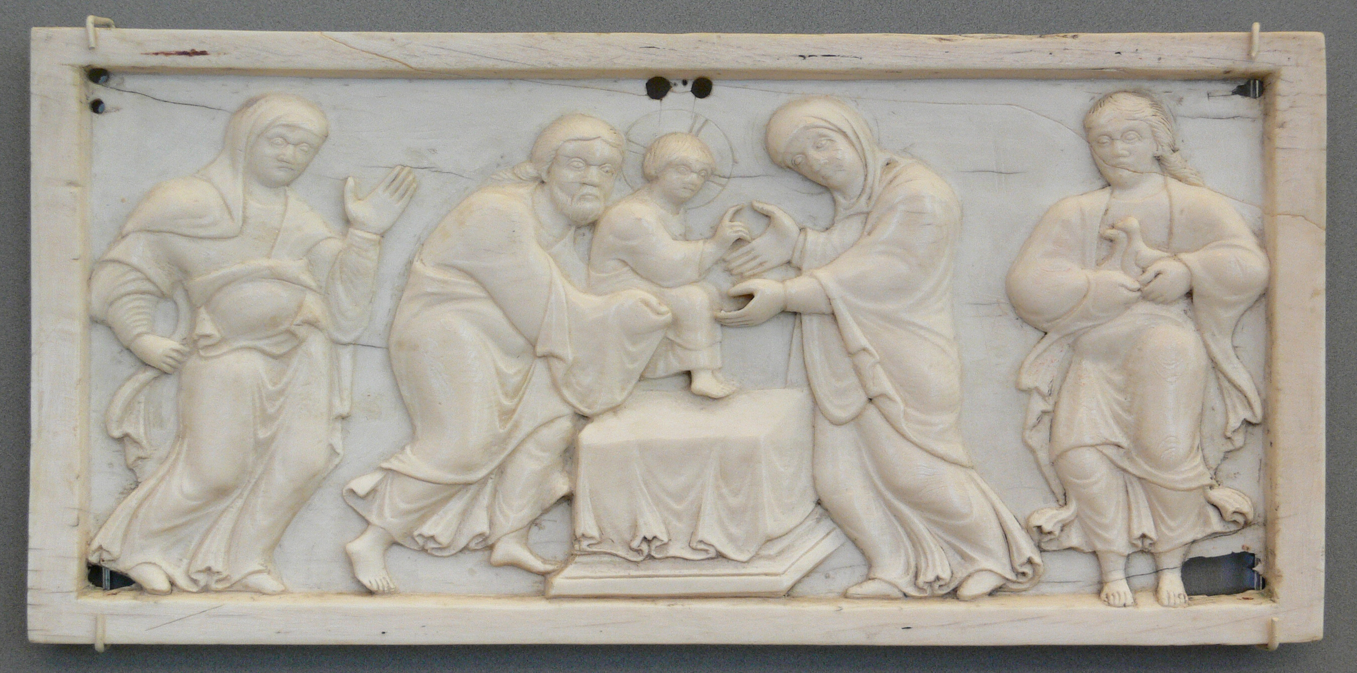 Presentation of Christ in the Temple, Trier or middle Rhine area, end of 10th or early 11th century; ivory. Skulpturensammlung (inv. no. 2848, acquired in 1903), Bode-Museum Berlin. Bode Museum Native nameBode-MuseumParent institutionBerlin State MuseumsLocationBerlinCoordinates52° 31′ 19″ N, 13° 23′ 41″ E Established1904Web page control : Q157825 VIAF: 104146937731213830769 ISNI: 0000 0001 2348 0535 LCCN: nr2007002827 OSM: 2186879 GND: 5044715-4 WorldCat institution QS:P195,Q157825